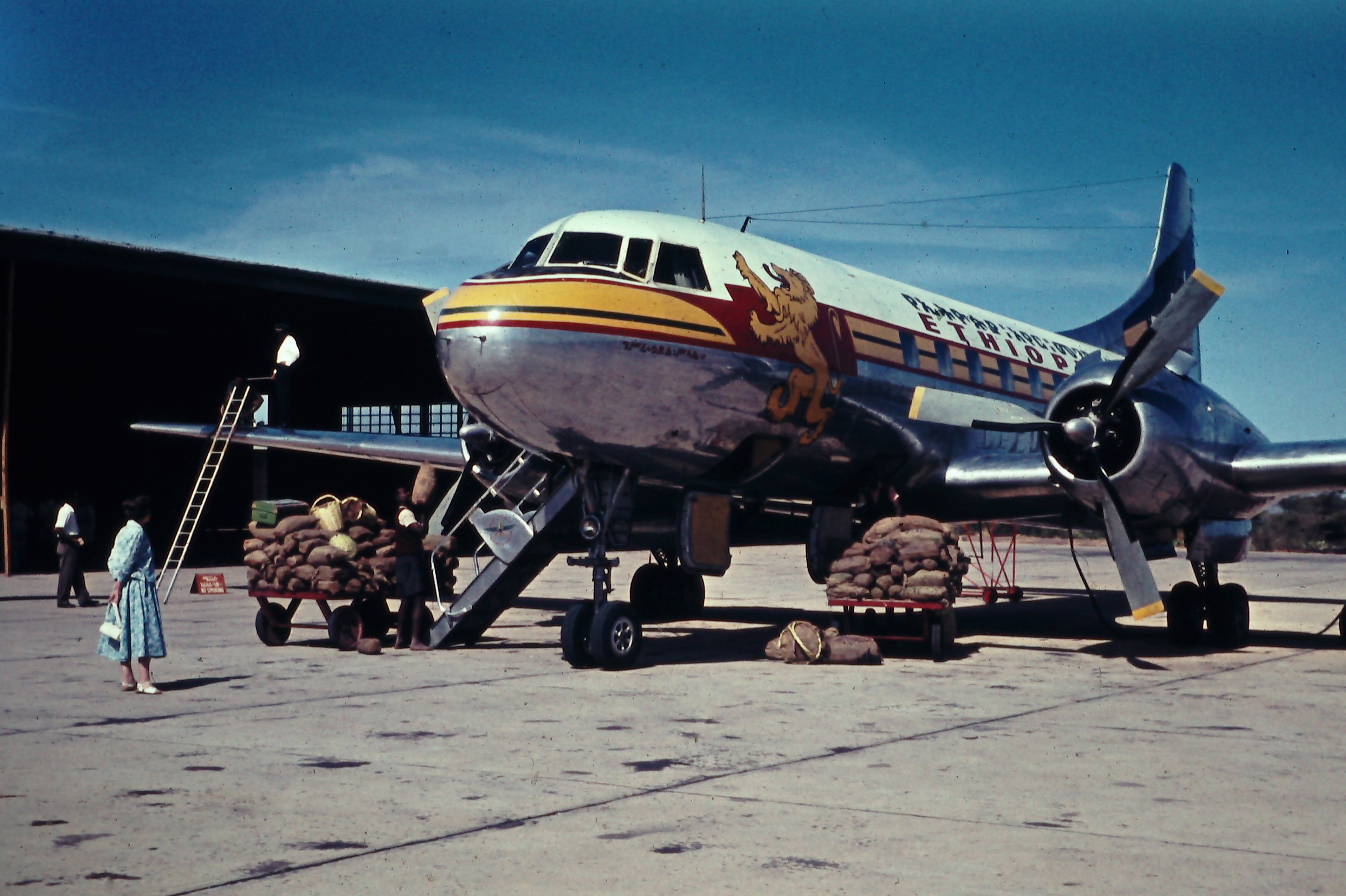 Ethiopian Airlines airplane loading khat in Dire Dawa, bound for Djibouti. Around 1960